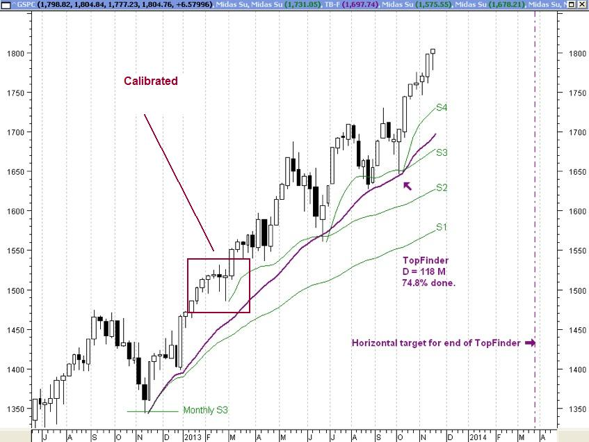 gen 3 curve